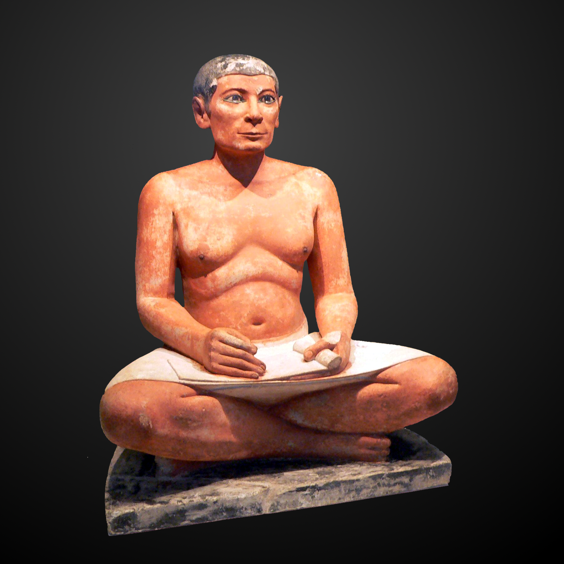 Cropped and background darkened version (photoshop) of Image:Louvre-antiquites-egyptiennes-p1020372.jpg which is available under CC-BY-SA 2.0 France